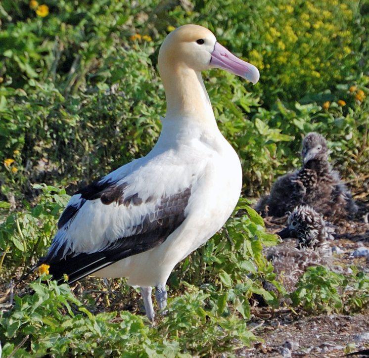 Taken by - James Lloyd Place - Eastern island, Midway Atoll. March 2007 Source